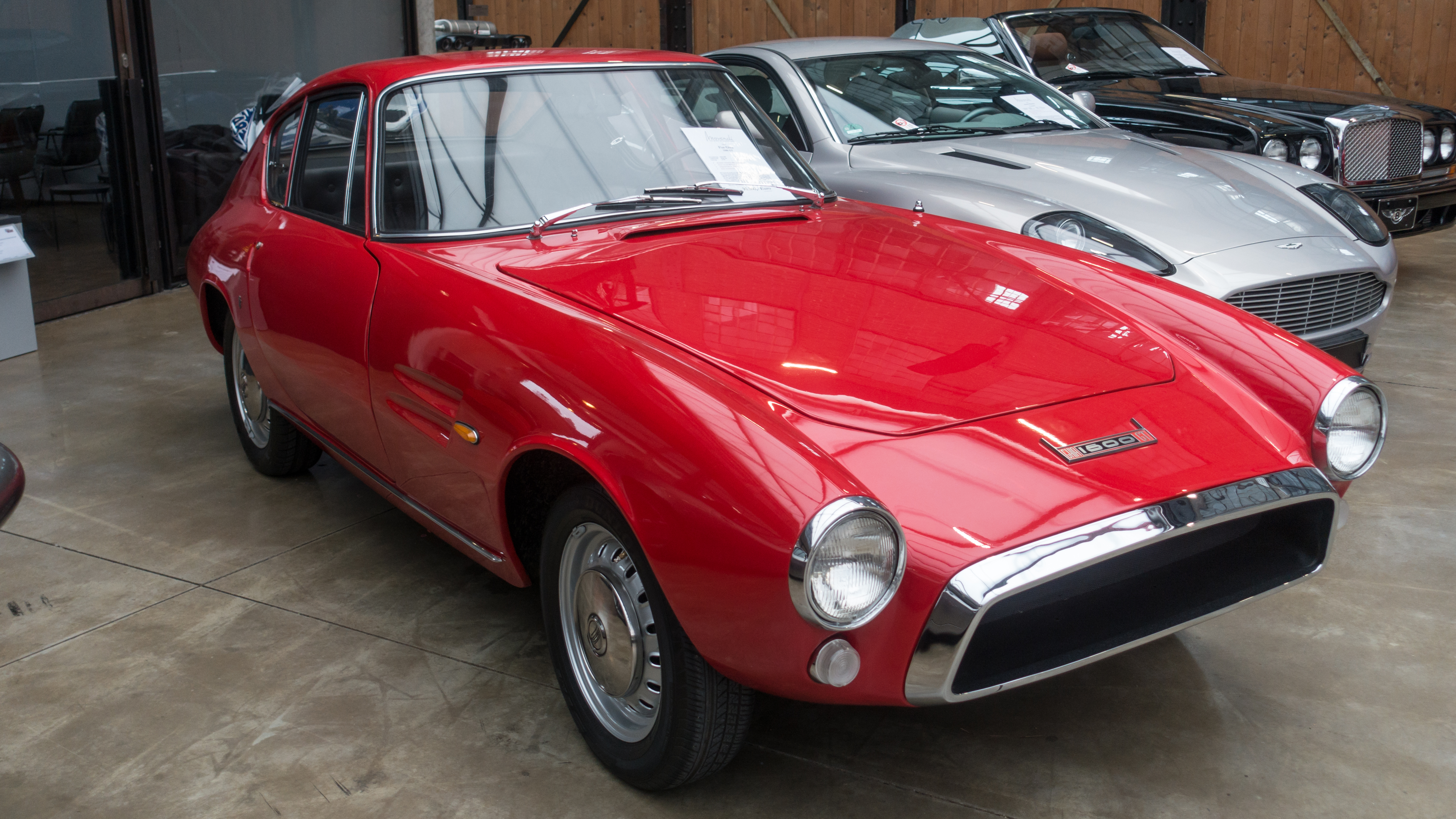 Fiat-Ghia 1500 GT (1965)at Classic Remise Düsseldorf